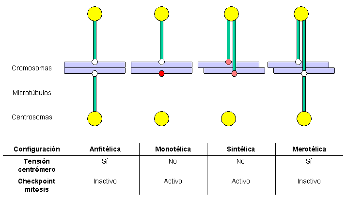 Scheme of the different configurations of chromosome attachment to the mitotic spindle. More information in Maiato et al. 2004 Journal of Cell Science 117, 5461-5477